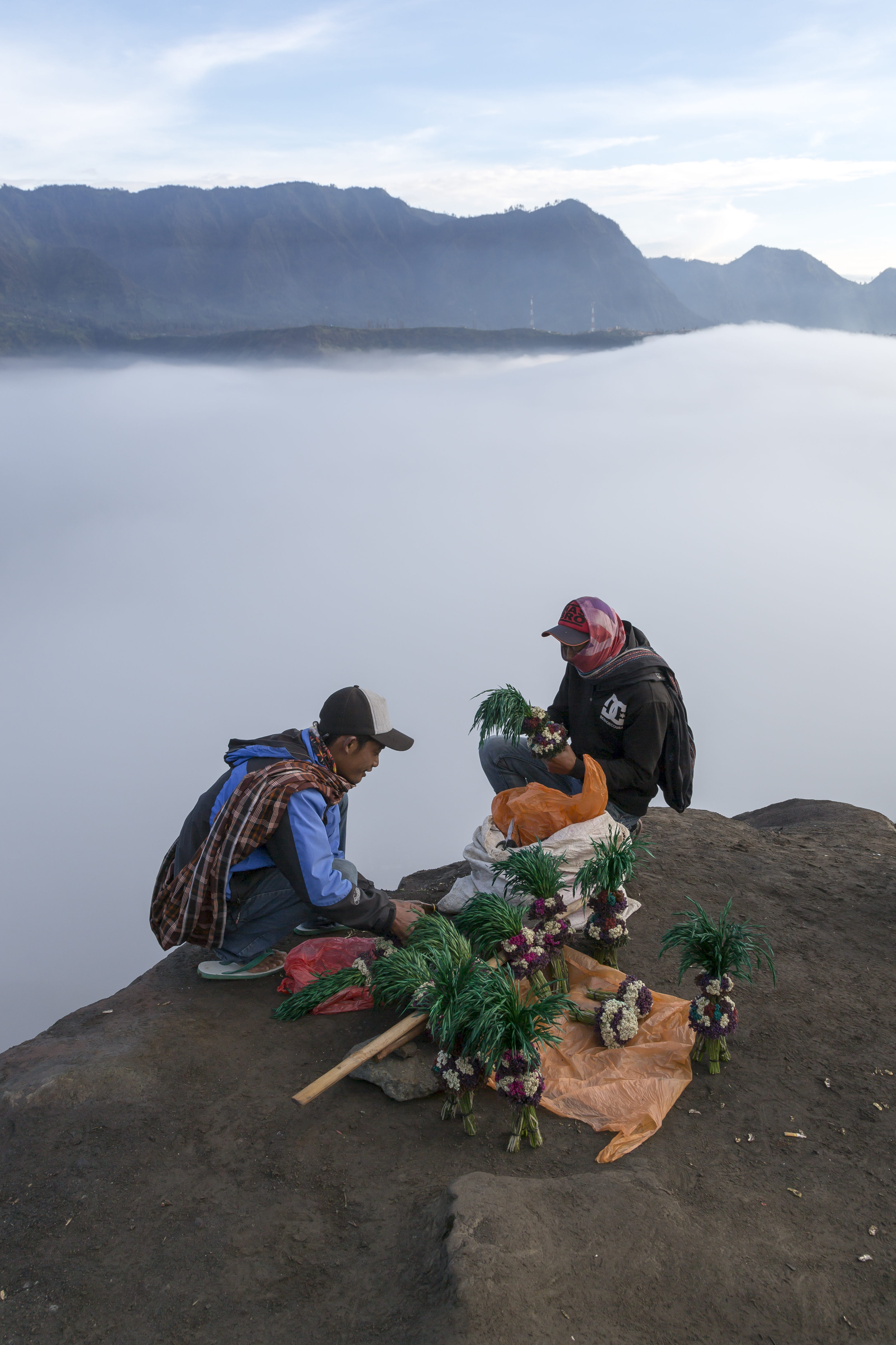 Bromo Tengger Semeru National Park, East Java, Indonesia: Hawkers selling flowers as offerings at the crater rim of Bromo Volcano.